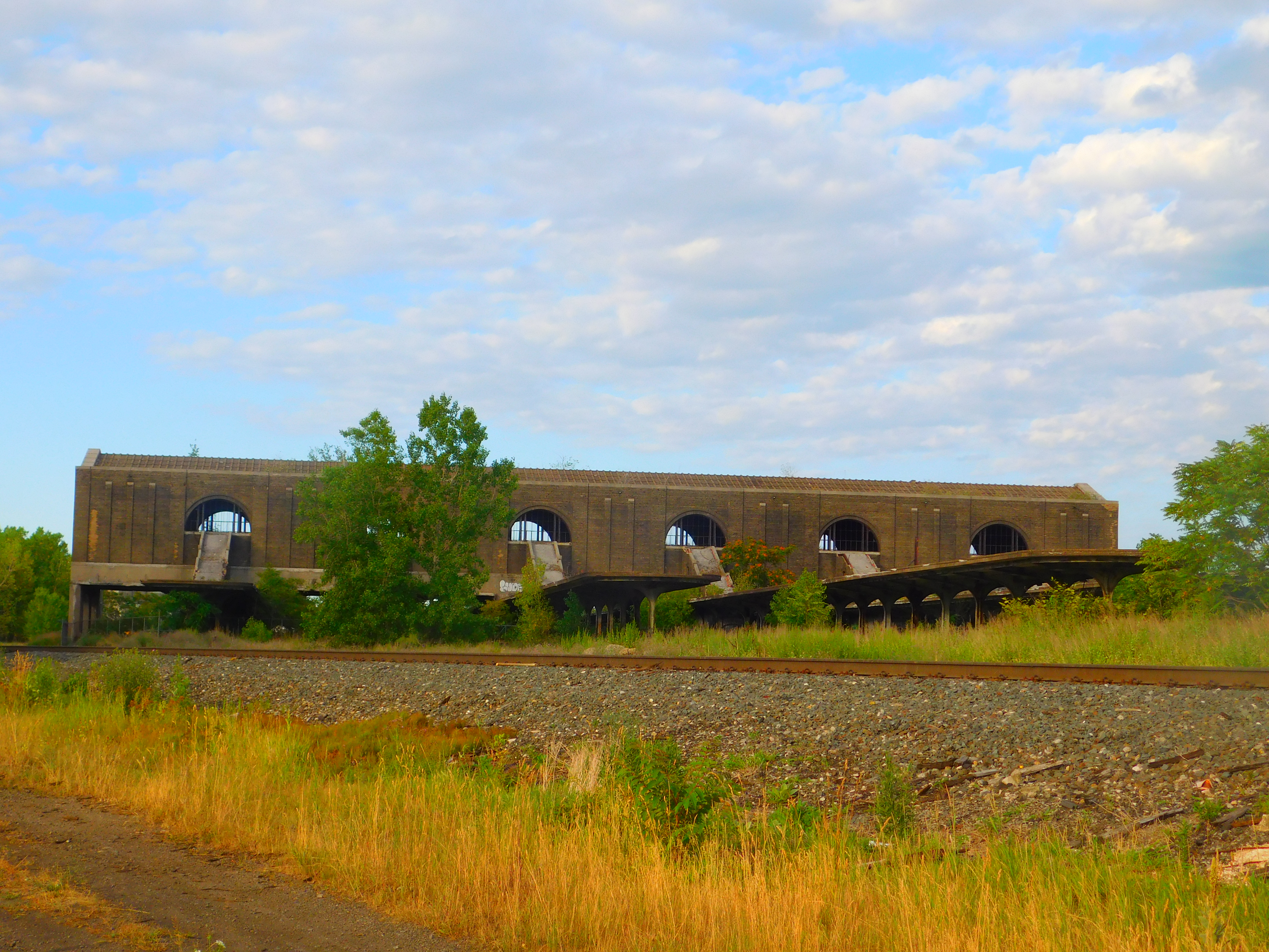 The former platforms of the Buffalo Central Terminal in Buffalo, New York.